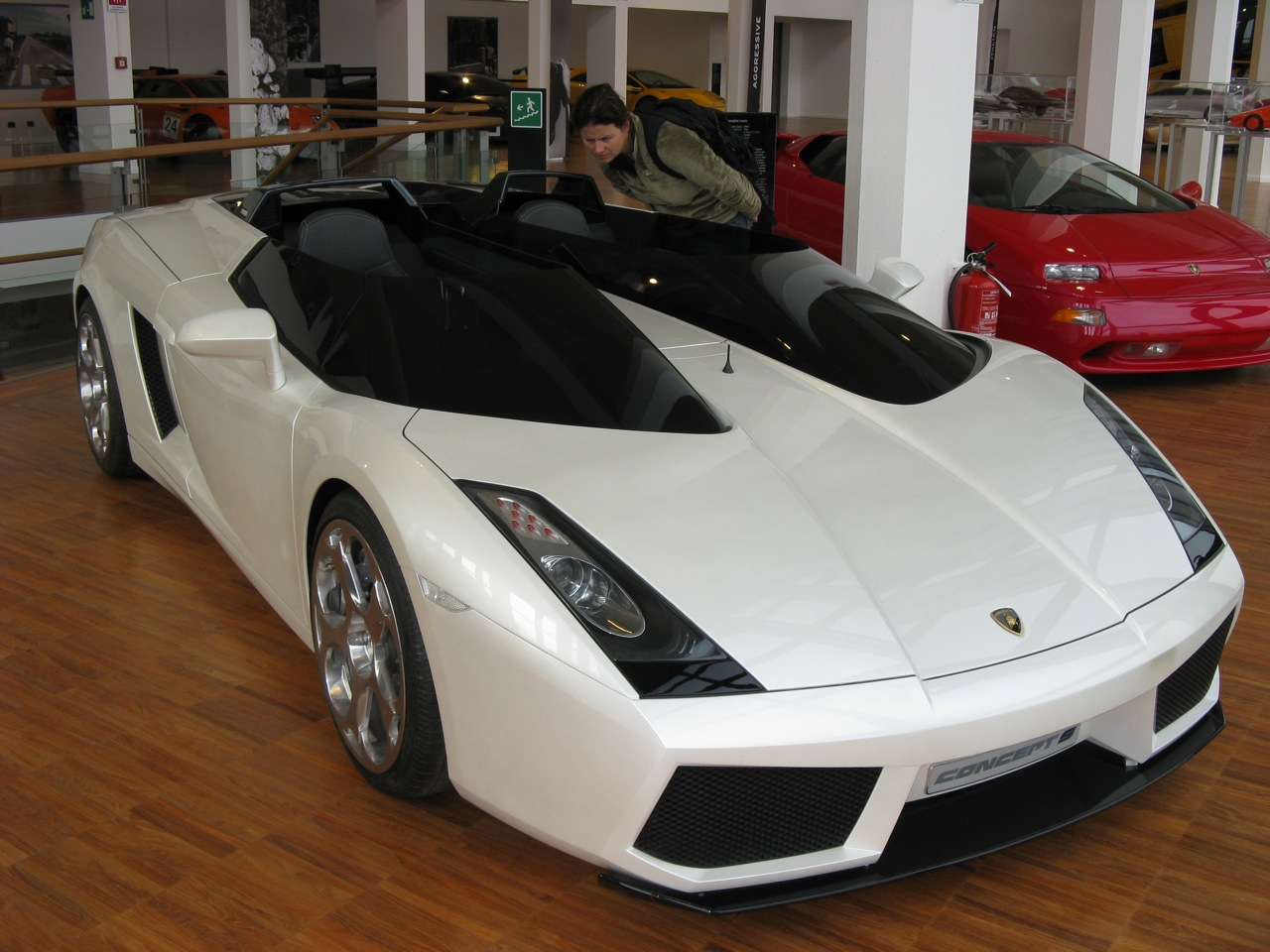 A white Lamborghini Concept S in the Lamborghini Museum in Sant'Agata Bolognese